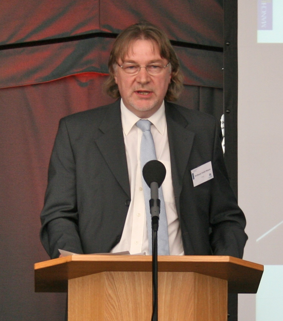 Keith Mason during a talk at Jodrell Bank Observatory in October 2007